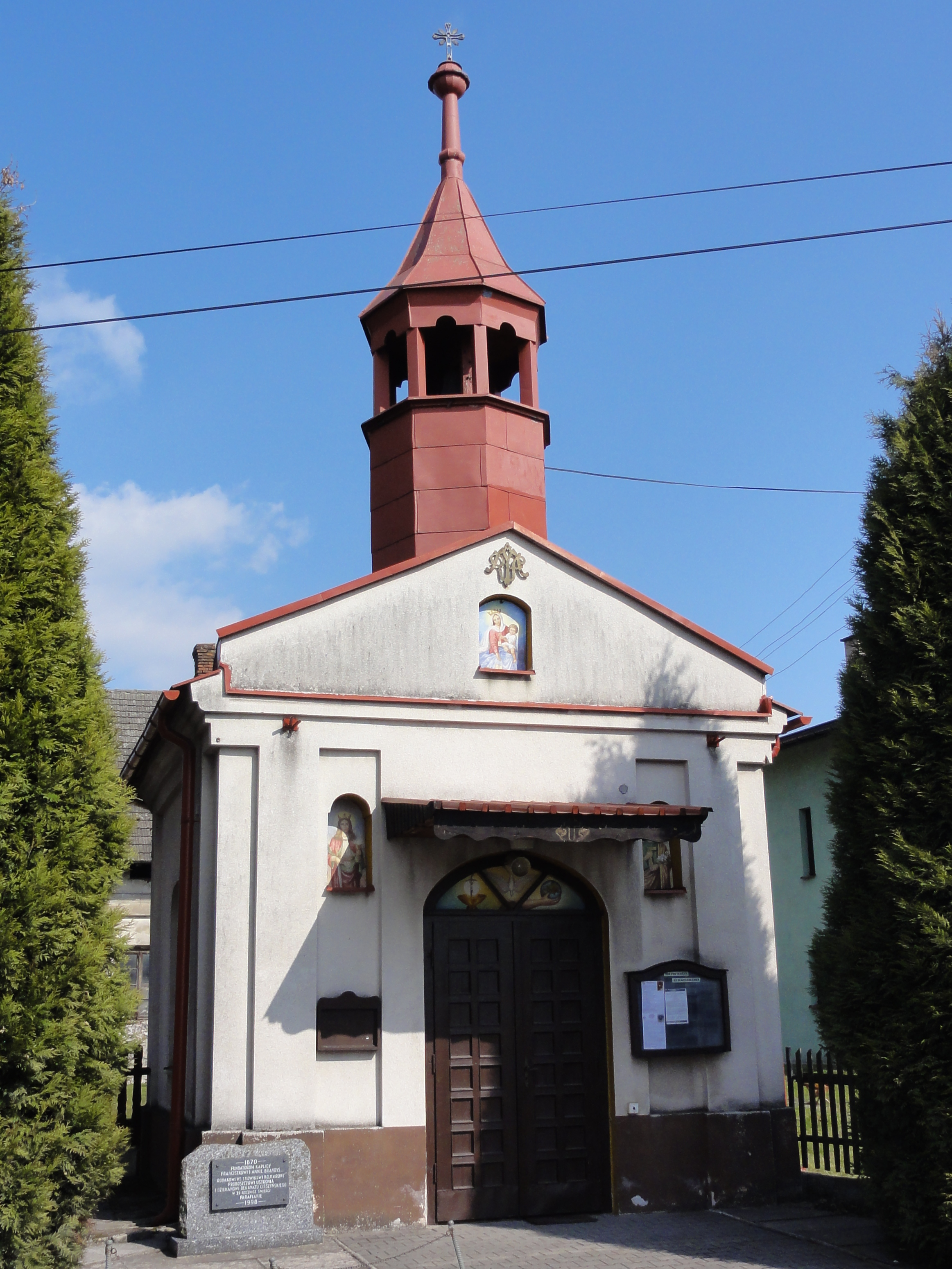 Saint Mary chapel in Zbytków from 1870